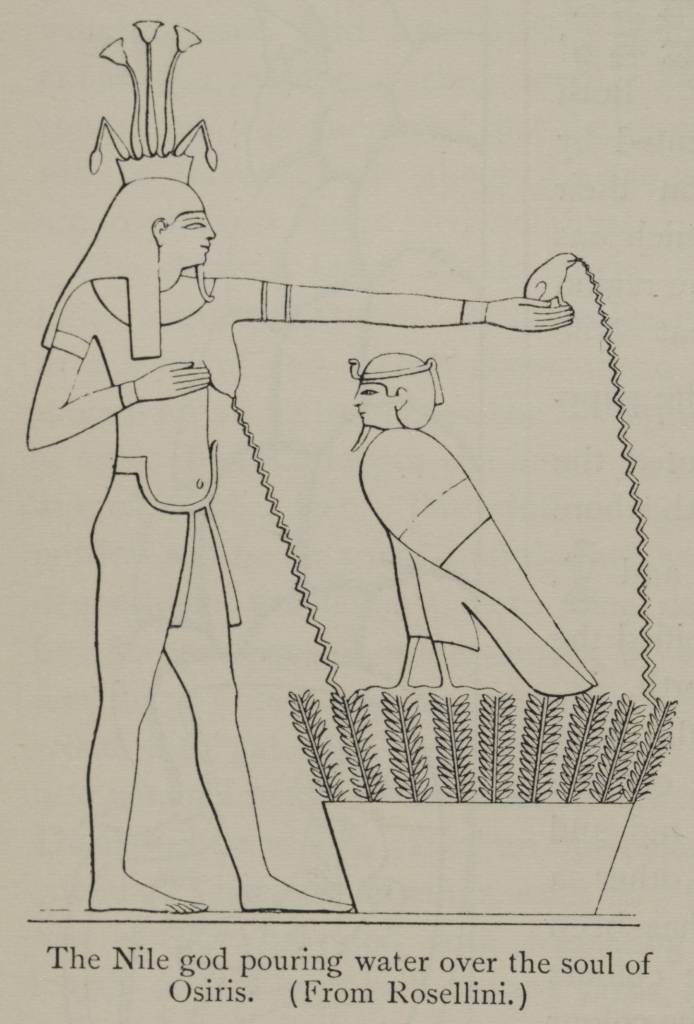 The Nile god pouring water from a hand and a breast over Osiris, pictured as a bird with a man's head.